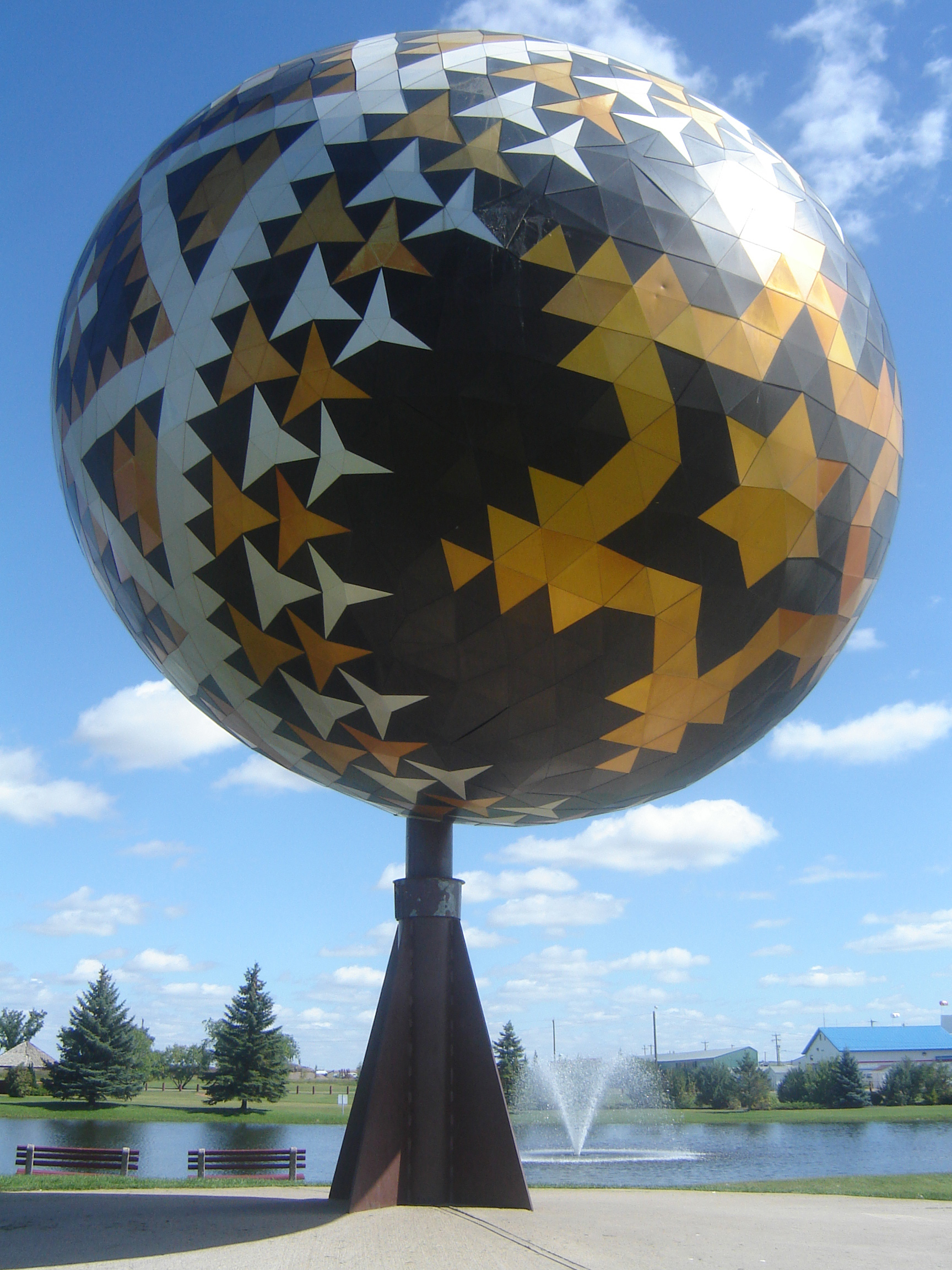 Pysanka at Vegreville, Alberta